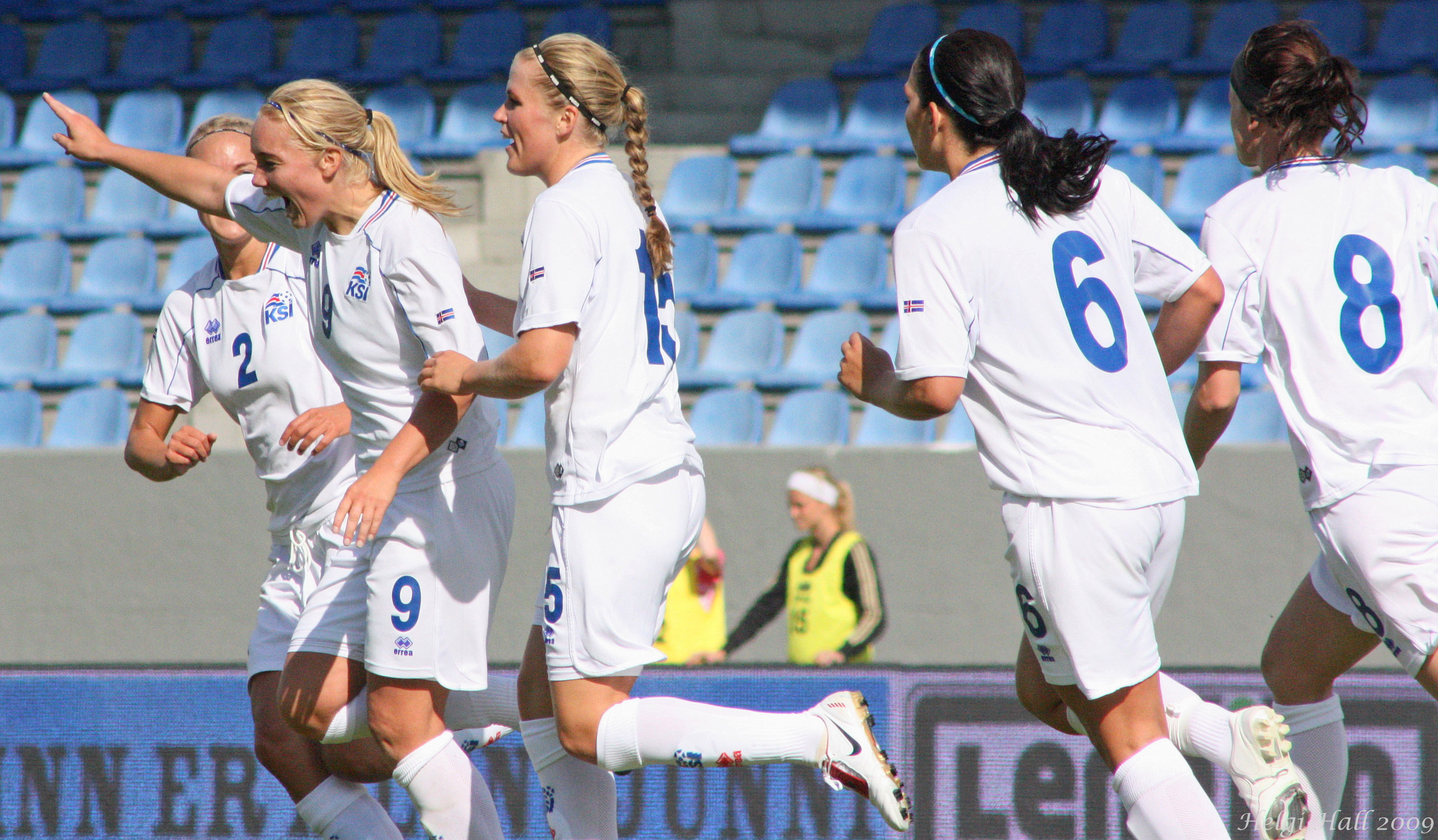 Margrét Lára Viðarsdóttir (born July 15, 1986 in Vestmannaeyjar, Iceland) is an Icelandic football player who plays as a striker. Margrét Lára is currently part of Icelands national team and will compete in UEFA Women's Euro 2009, having finished the qualifiers as the overall top scorer. Margrét Lára currently plays for Kristianstads DFF at club level.